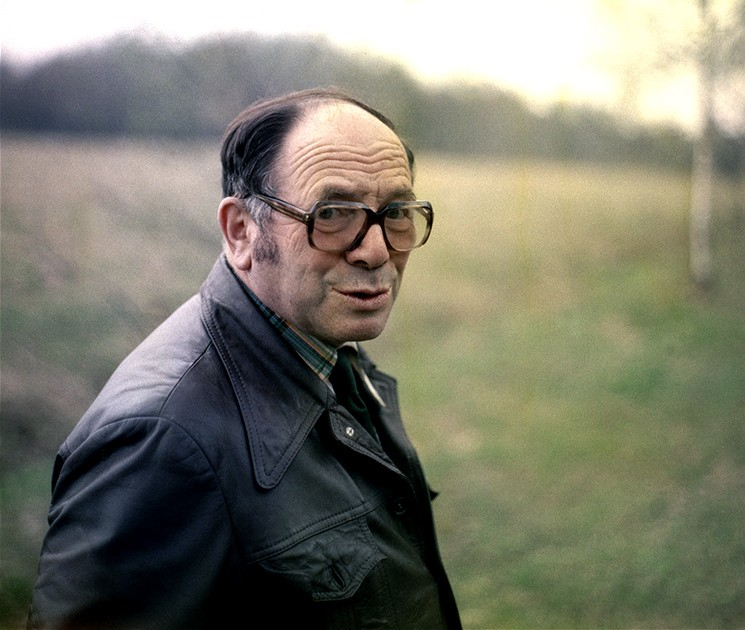 Nobel laureates Leonid Kantorovich